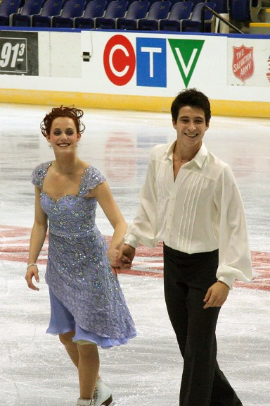 Tessa Virtue & Scott Moir at the 2006 Skate Canada International.